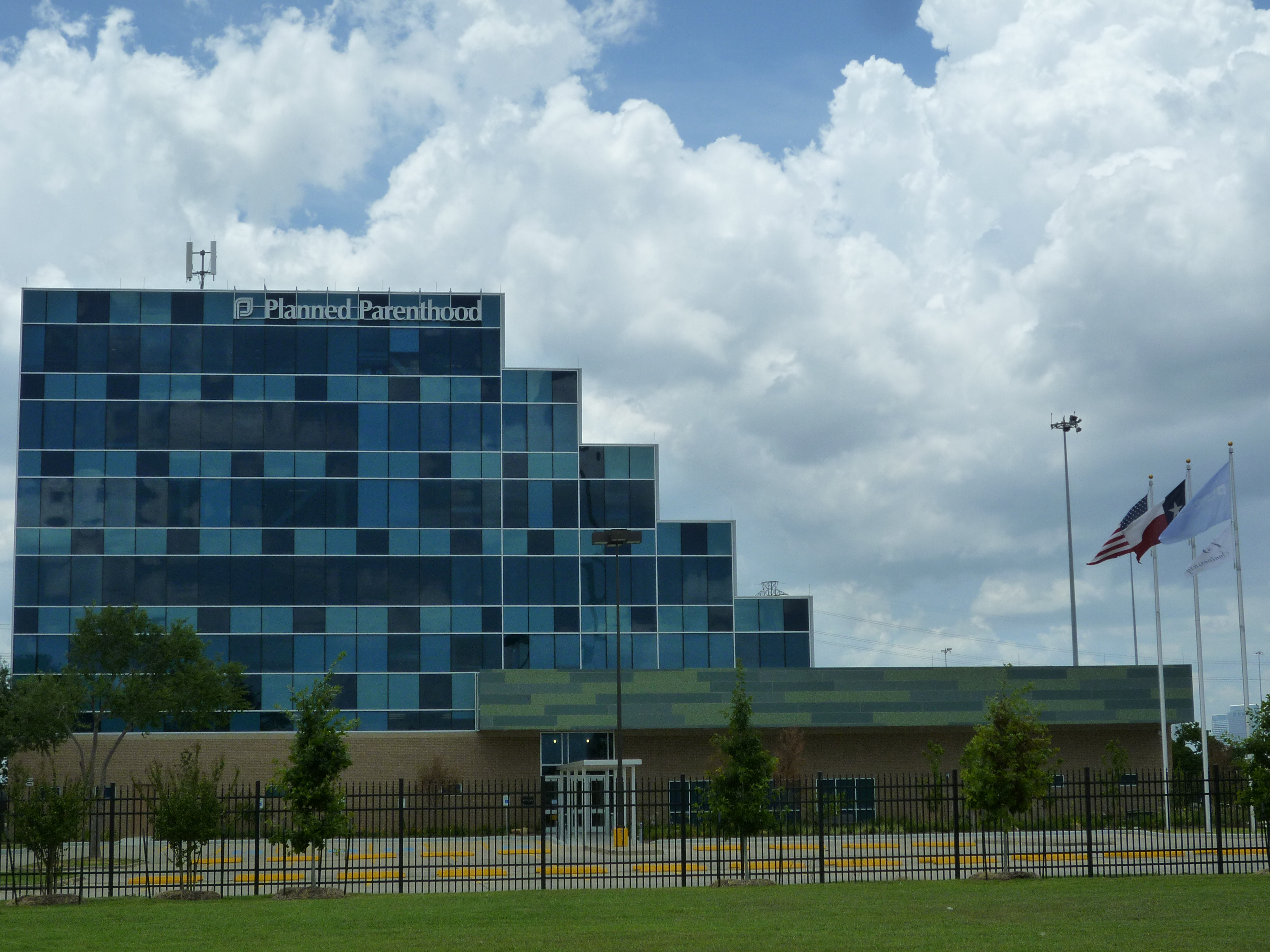 Prevention Park, is the largest Planned Parenthood administrative and medical facility in the nation. It also serves as the headquarters for 12 clinics, located in Houston, Texas